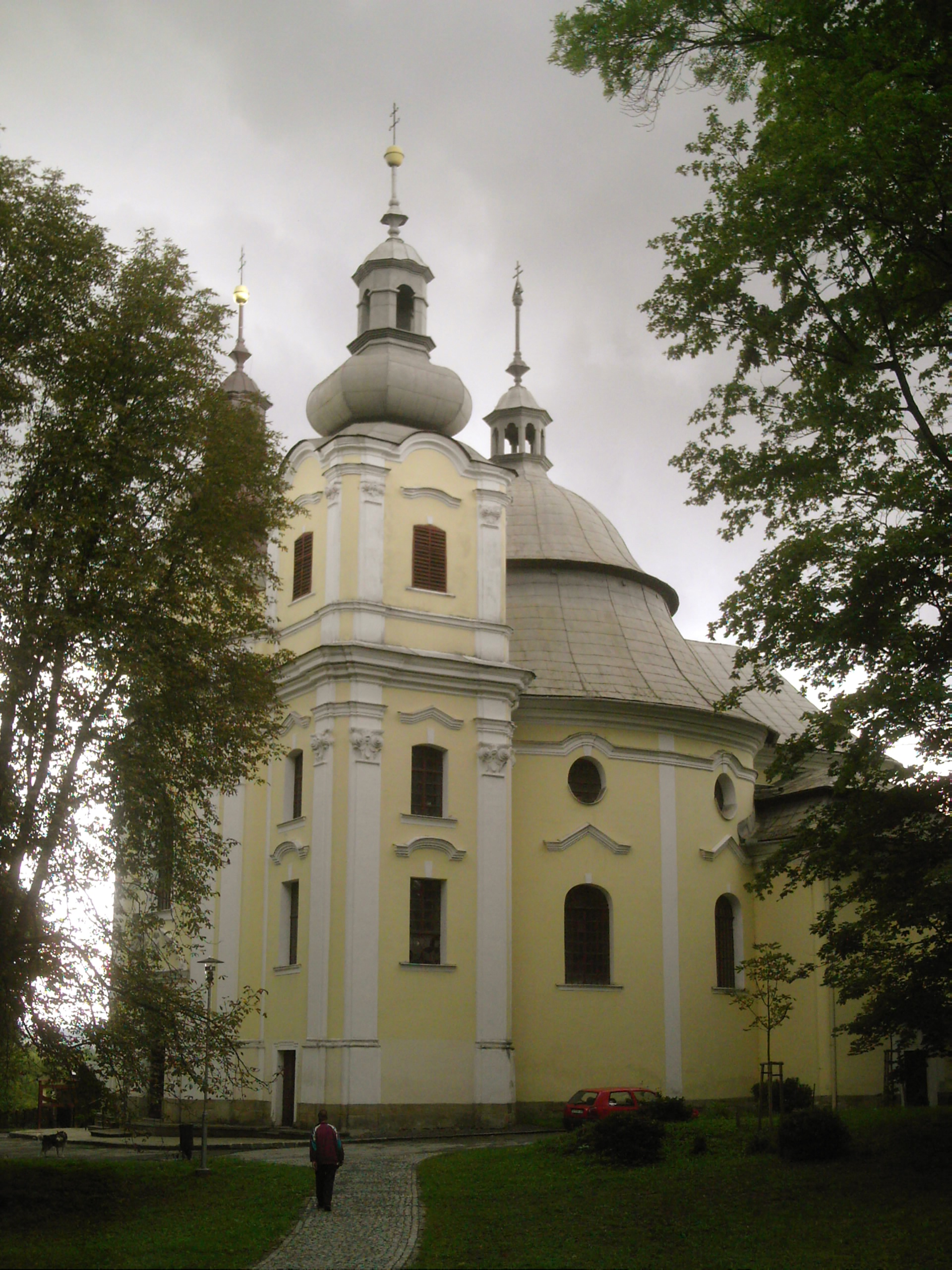 The Church in Šenov (Czech Republic).